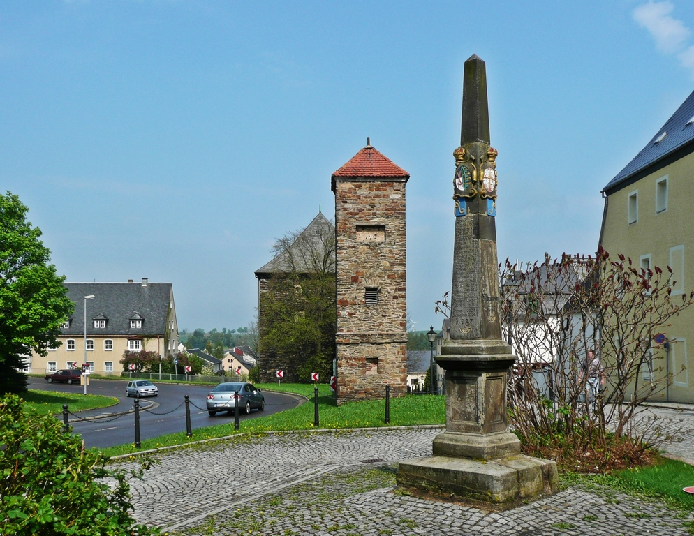 This photo shows the former defensive wall at the Zschopau gate and the electoral saxonian milestone from 1727 in Marienberg.